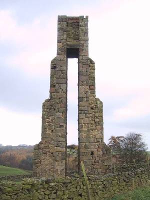 Sighting tower in Carlesmoor near the River Laver. Taken by Jim Matthews, November 2006.